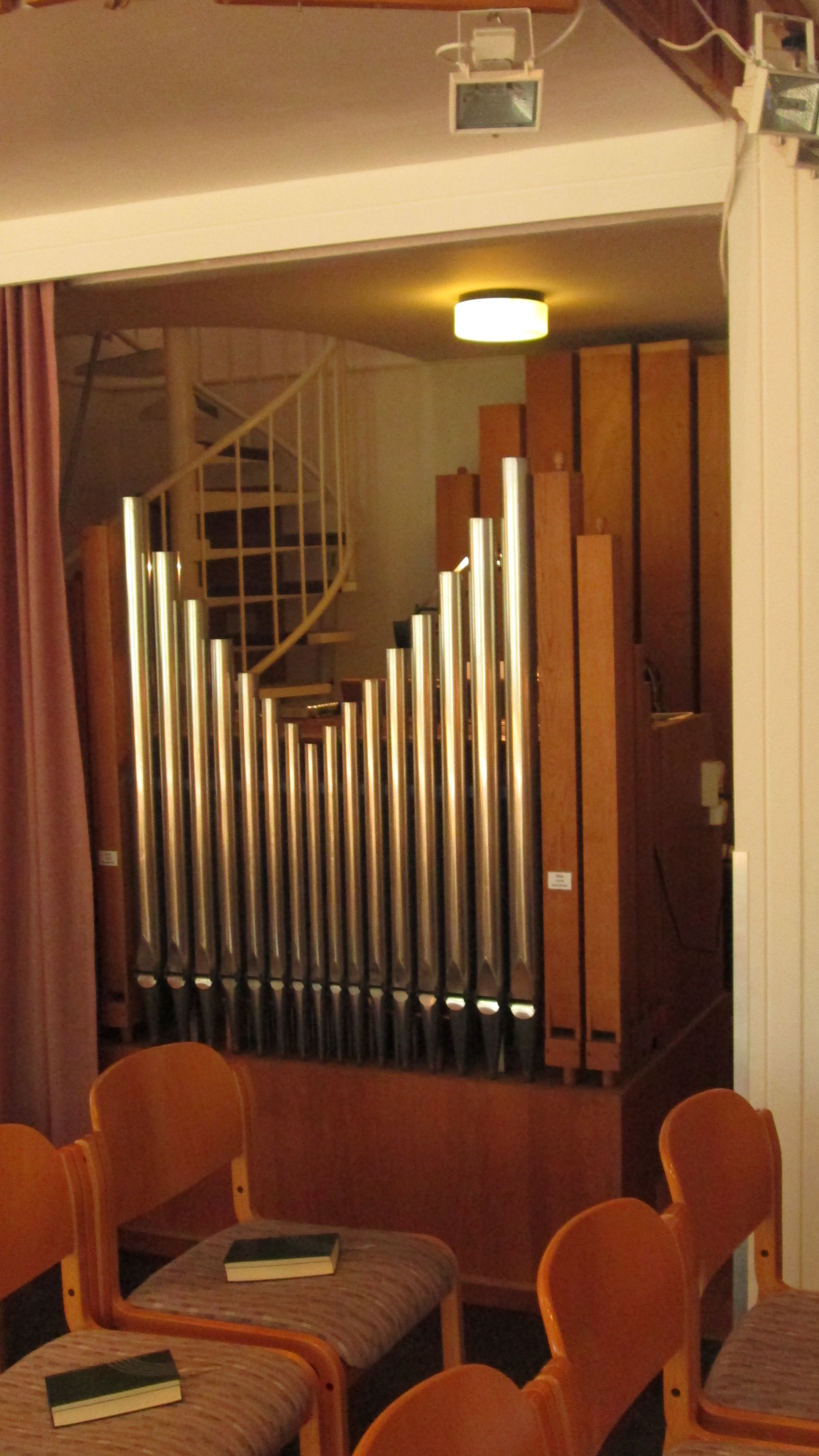 Church Organ (Walcker, 1970), Protestant Radeland Church, Berlin-Spandau